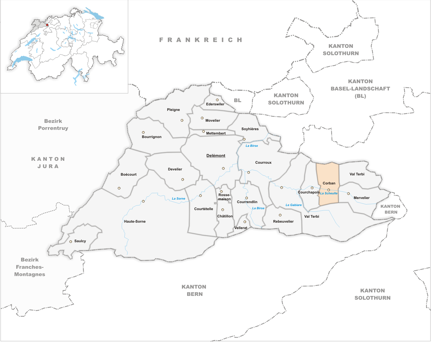 Municipality Corban